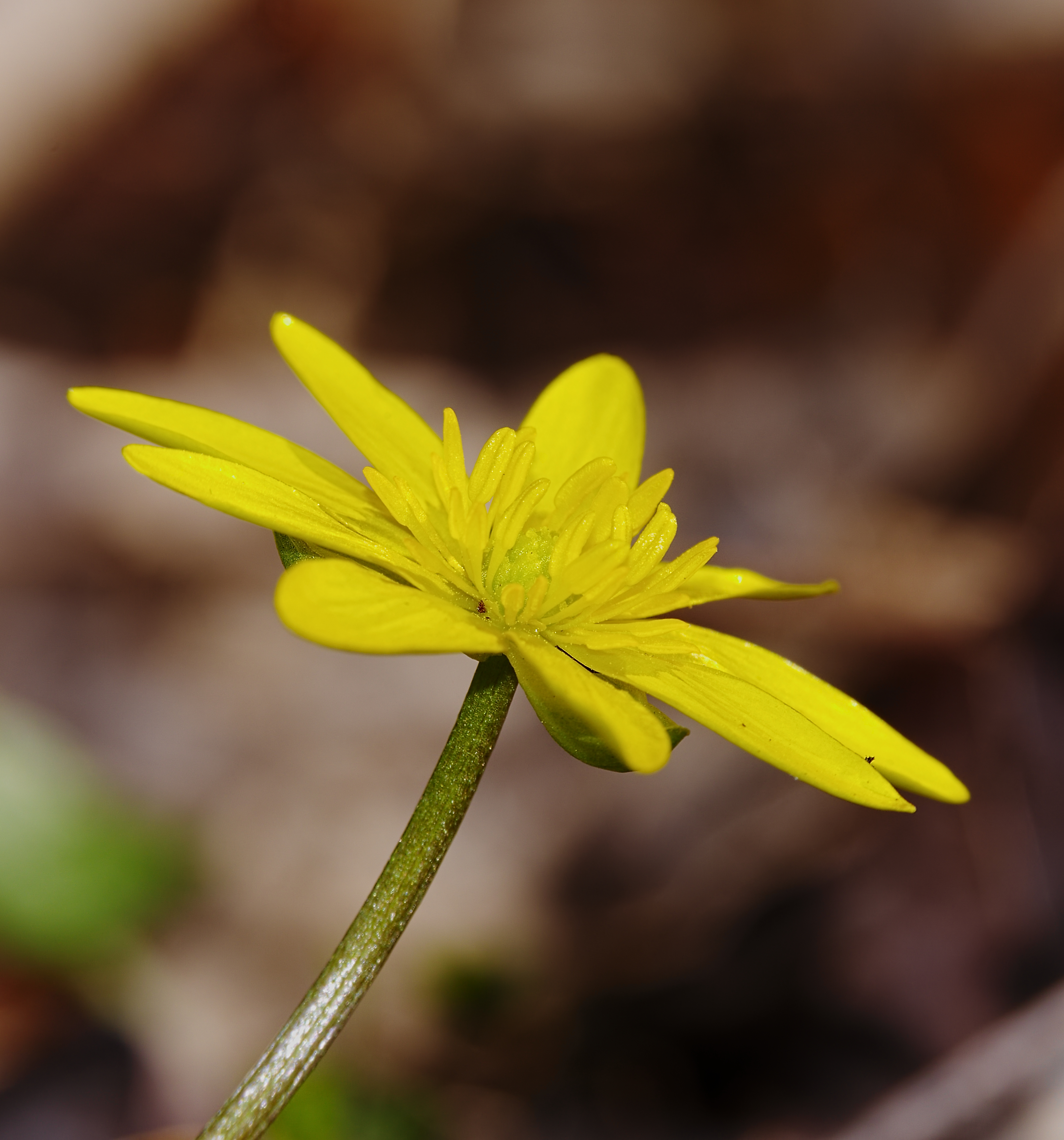 Lesser celandine - Ficaria verna. Taken in Mannheim in Käfertaler Forest, Baden-Württemberg, Germany.